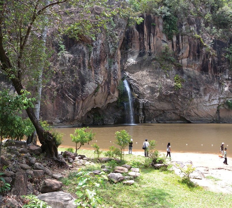 Type locality of Glyphidrilus vangthongensis on a river bank of Sakulnothayan waterfall, Vangthong, Phitsanulok, Thailand.